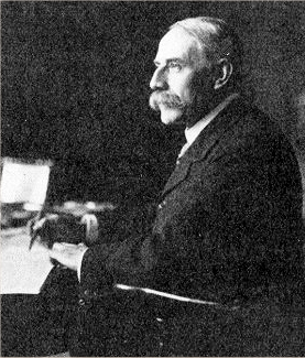 Edward Elgar.